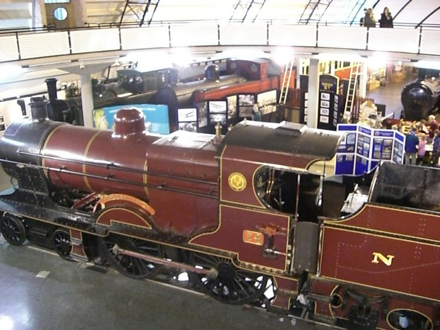 NCC Class U2 4-4-0 steam locomotive 74 Dunluce Castle in the Ulster Transport Museum, Cultra, Co. Down, Northern Ireland